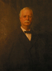 Sereno Elisha Payne (June 26, 1843 – December 10, 1914) was a United States Representative from New York